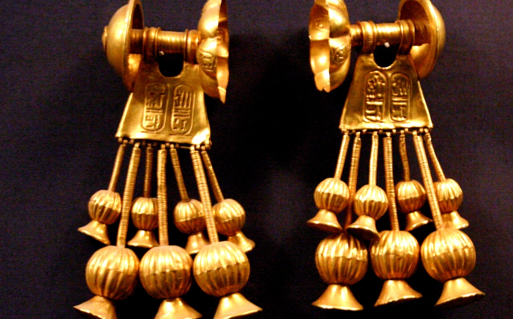 Gold earrings bearing the cartouche of pharaoh Seti II (Sethos II) found in tomb KV56 in 1908 by an Egyptian expedition funded by Theodore M. Davis. It is now located in the Cairo Museum.